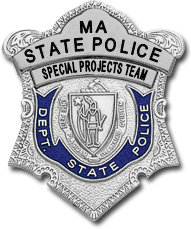 Logo of the MSP Special Projects Team